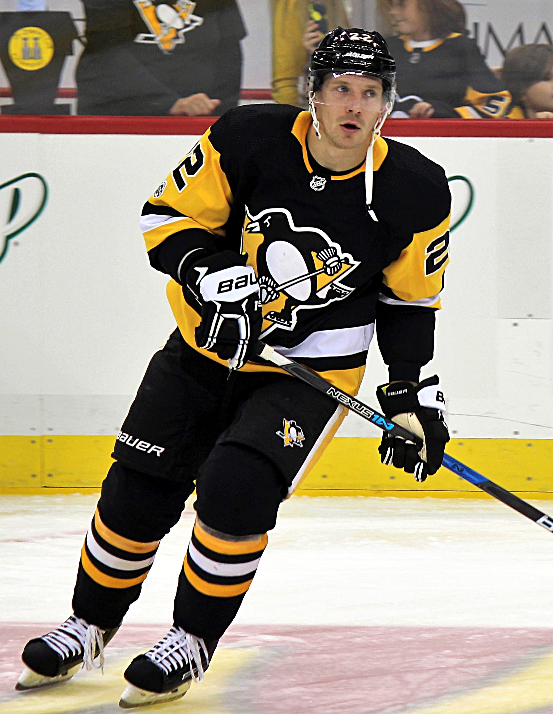 Pittsburgh Penguins defenseman Matt Hunwick during a game against the St. Louis Blues, October 4, 2017, at PPG Paints Arena in Pittsburgh, PA.